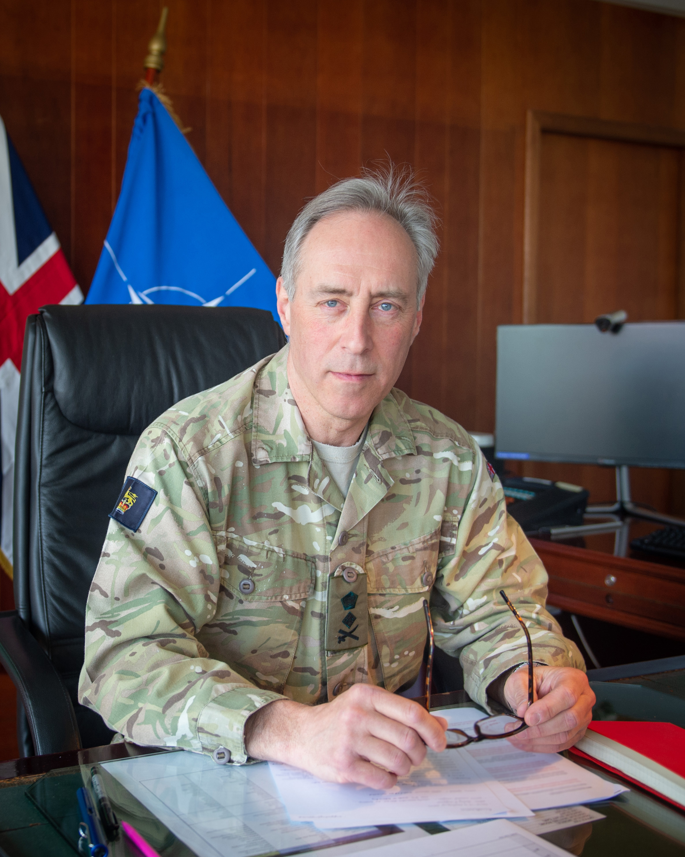 General Radford at his desk in SHAPE